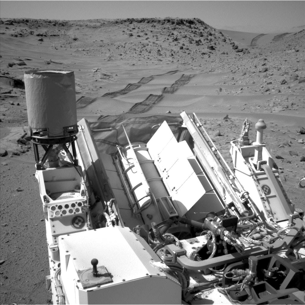 PIA17939: Curiosity Making Headway West of 'Dingo Gap' NASA's Curiosity Mars rover used the Navigation Camera (Navcam) on its mast to catch this look-back eastward at wheel tracks from driving through and past "Dingo Gap" inside Gale Crater. The gap, spanned by a 3-foot-tall (1-meter-tall) dune, is at the right-hand side of the horizon in this scene. Curiosity crossed the dune on the 535th Martian day, or sol, of the rover's work on Mars (Feb. 6). On Sol 538 (Feb. 9), it drove 135 feet (41.1 meters) farther westward. This image was taken on Sol 539 (Feb. 10) from the location reached by the previous sol's drive. For scale, the distance between the parallel wheel tracks is about 9 feet (2.7 meters). The high-mounted cylinder on the rear part of the vehicle is the rover's UHF (ultrahigh frequency) antenna. The set of disks mounted below it is part of the calibration target for Curiosity's Chemistry and Camera (ChemCam) instrument. The ball-on-a-stick device in the foreground is the calibration target, including a sundial, for Curiosity's Mast Camera (Mastcam). To the right of the UHF antenna in this image are the radiator fins for Curiosity's power supply, a radioisotope thermoelectric generator. NASA's Jet Propulsion Laboratory, Pasadena, Calif., manages the Mars Science Laboratory Project and the mission's Curiosity rover for NASA's Science Mission Directorate in Washington. The rover was designed and assembled at JPL, a division of the California Institute of Technology in Pasadena. More information about Curiosity is online at and